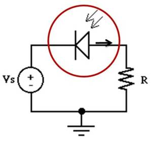 photodiode-inverse bias